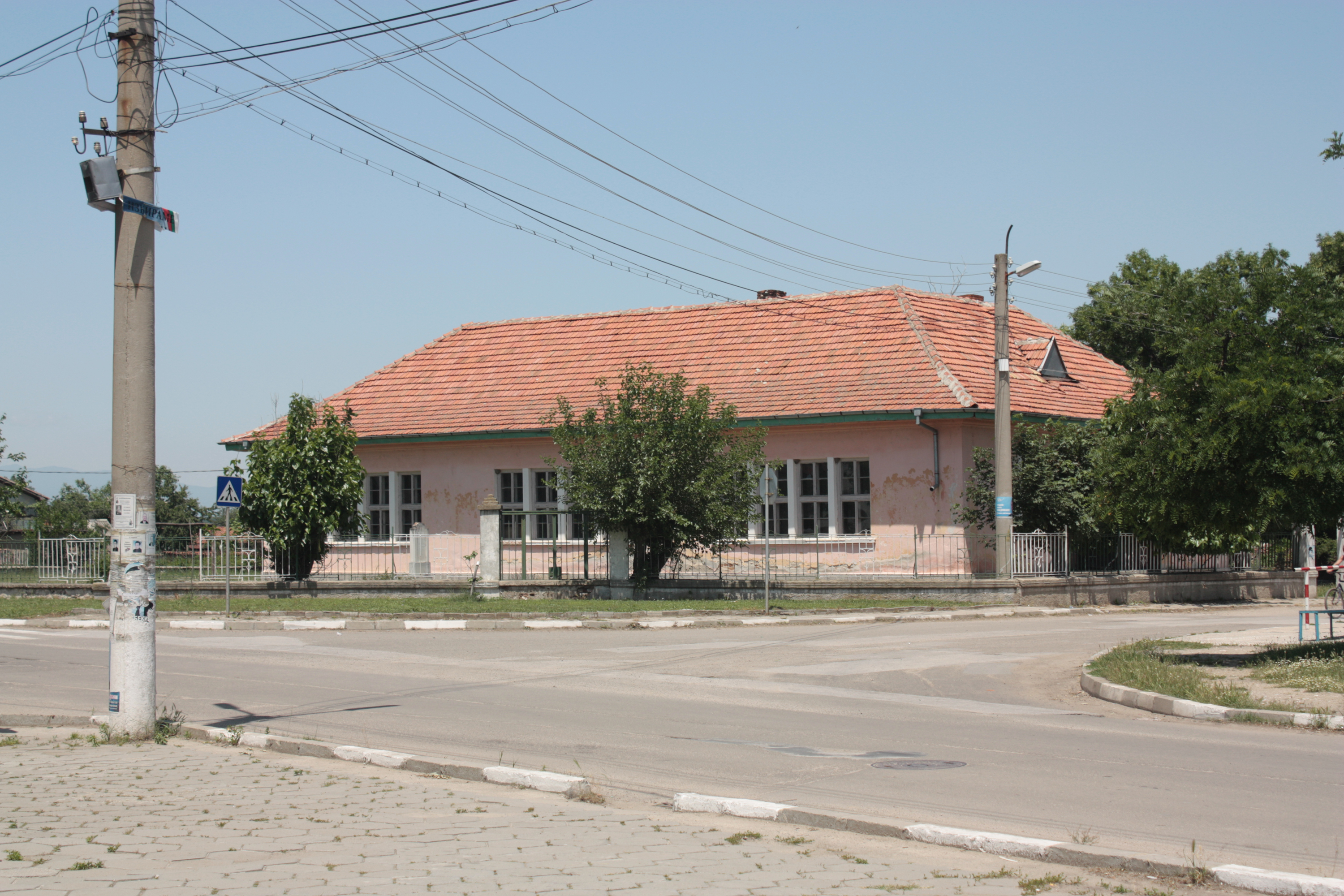 School in Nedelevo, Bulgaria